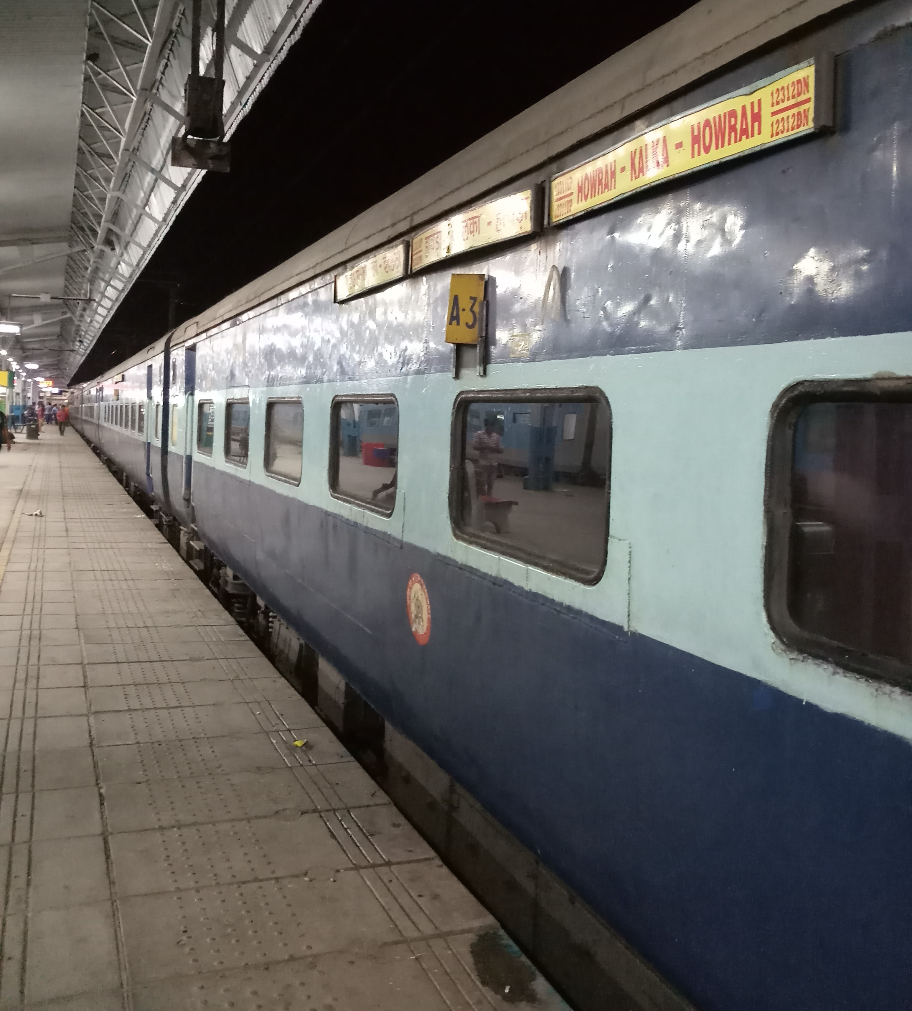 Kalka Mail standing at Kalka Station